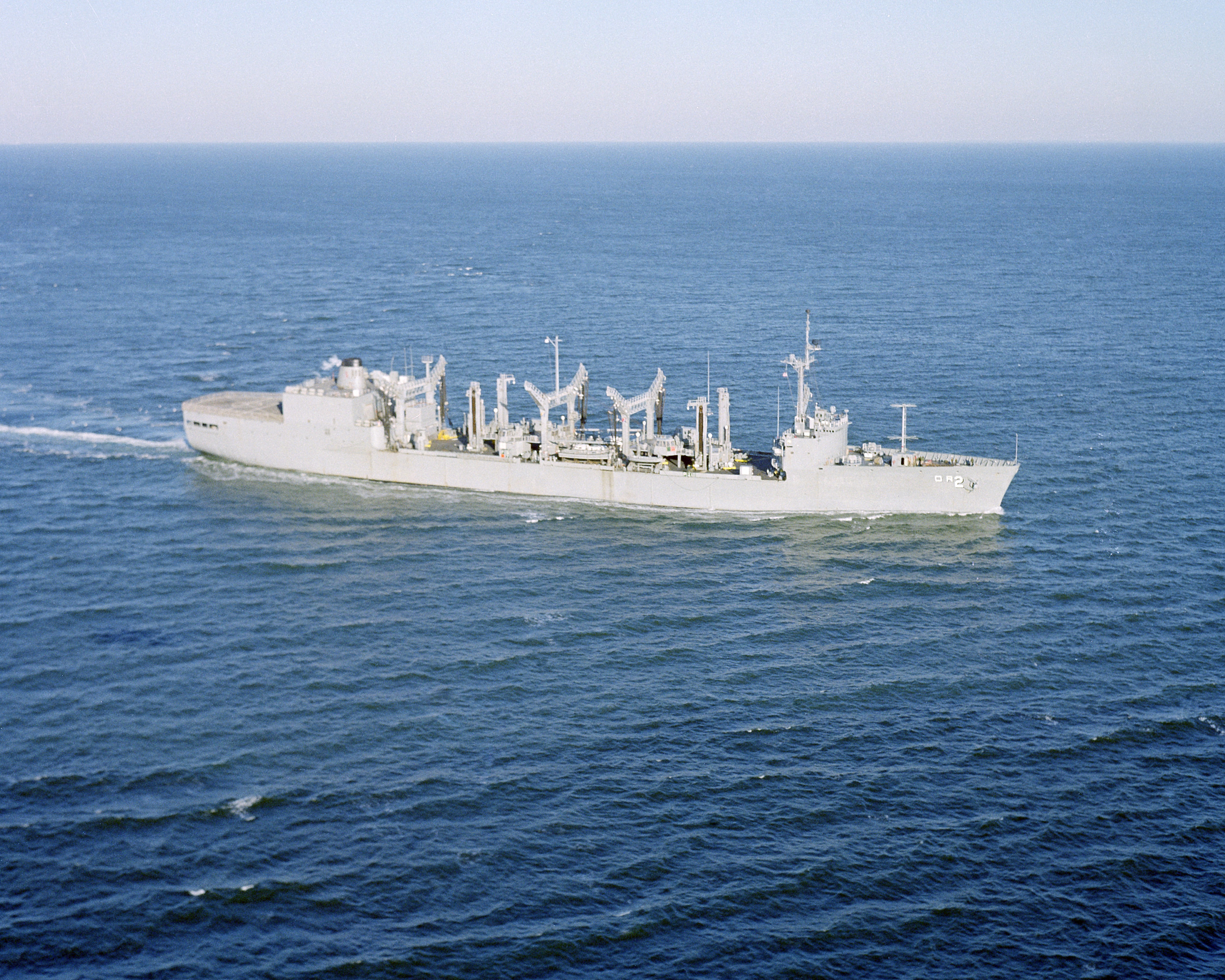 The U.S. Navy replenishment oiler USS Milwaukee (AOR-2) underway on 23 March 1982.